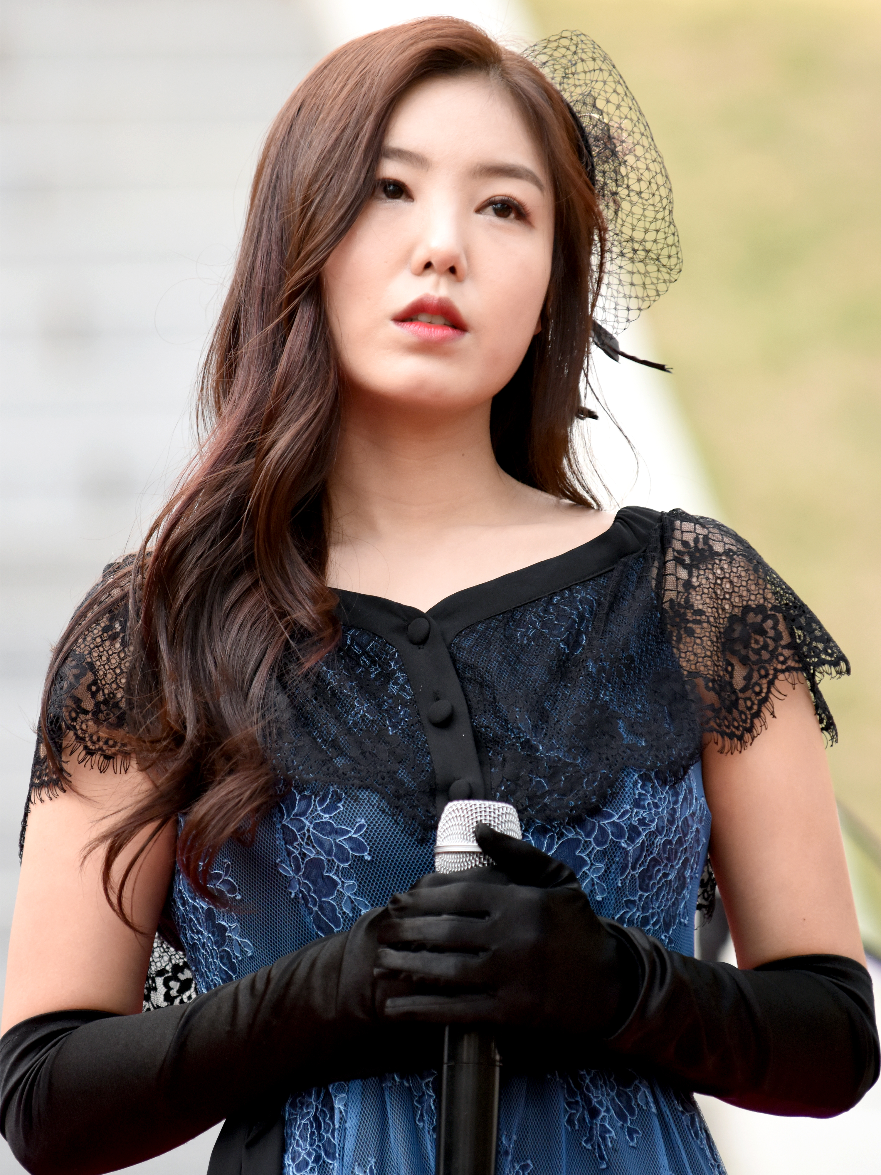 2019년 10월 12일 정동연가 콘서트에서의 제니.